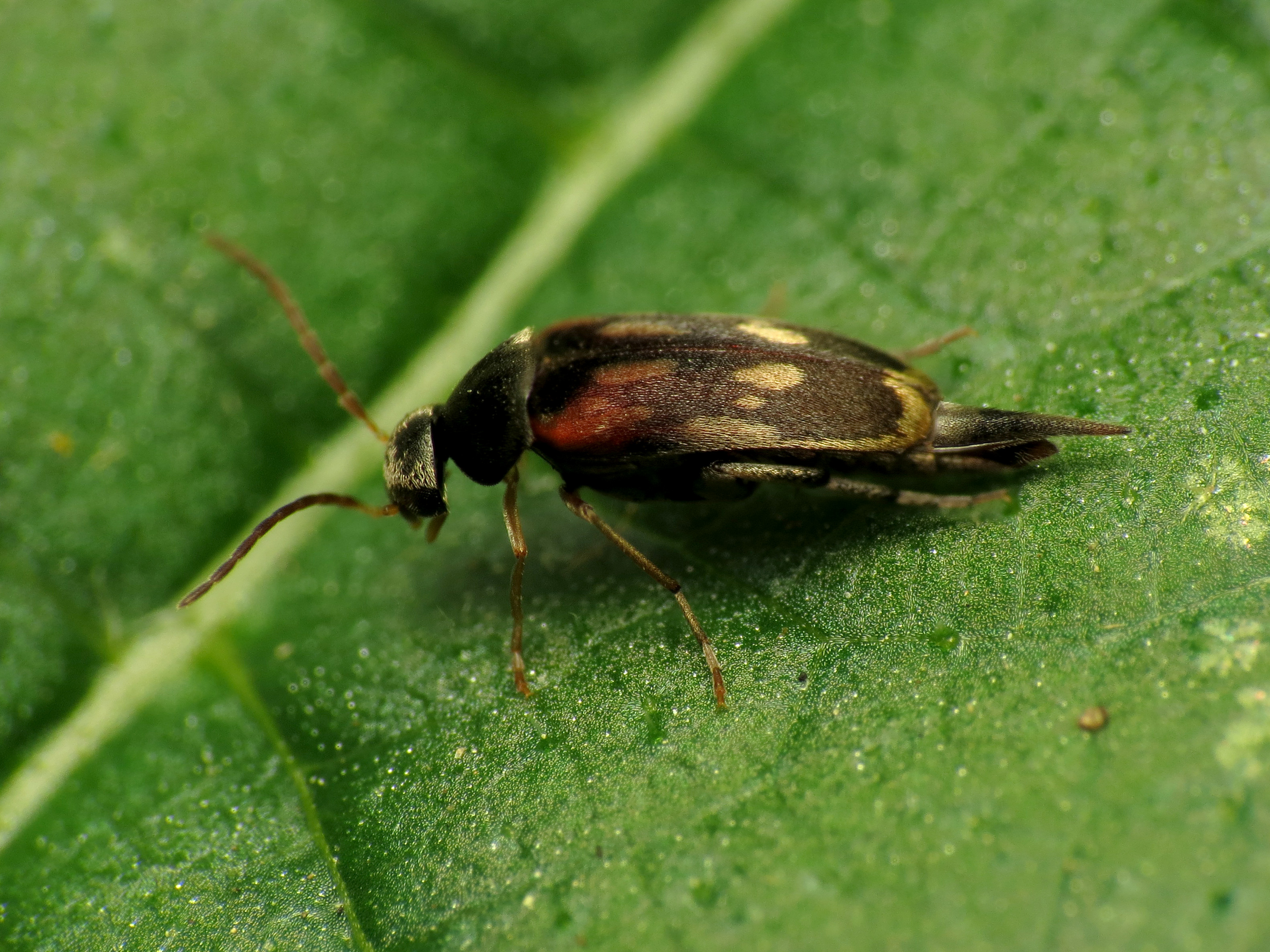 Falsomordellistena bihamata. Rock Creek Park, Washington, DC, USA.